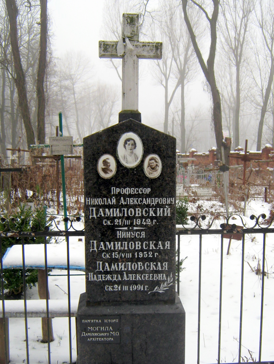 Grave of Nikolaj Damilovskj. Uploaded from the Ukrainian Wiki